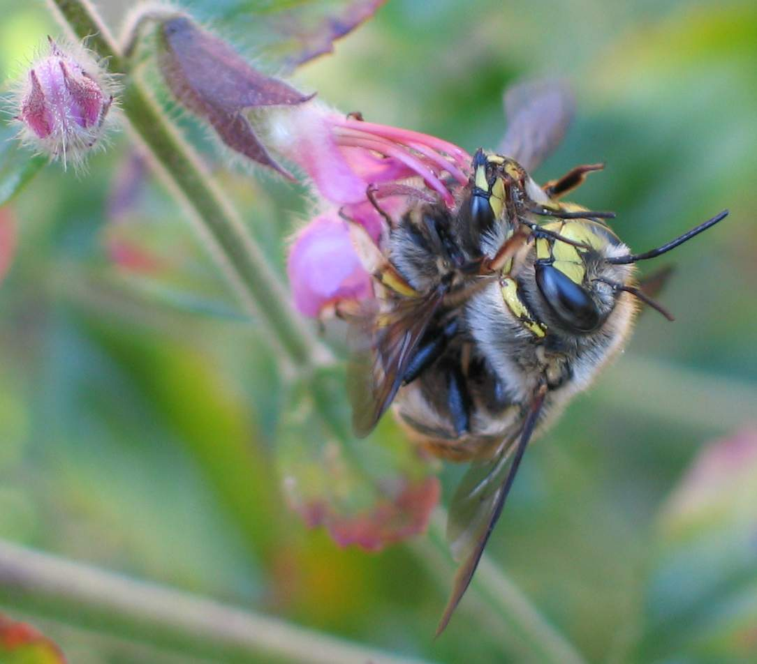 Anthidium manicatum Author: soebe Date: 2004-08-08 Location: Eckernförde, Northern Germany